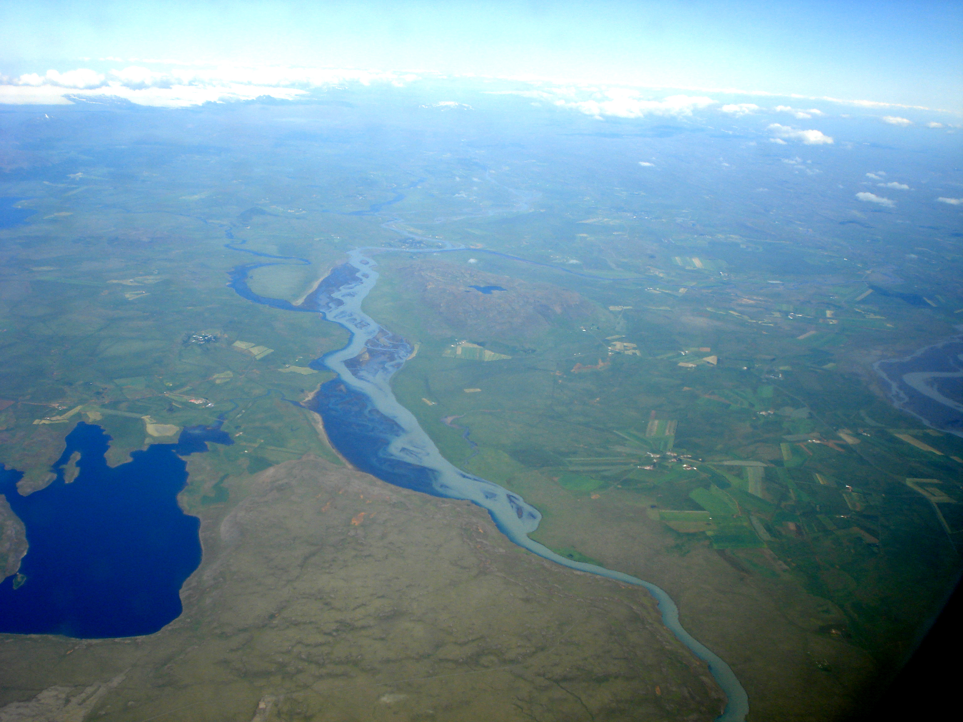 Lake Hestvatn, river Hvítá in Iceland; looking north